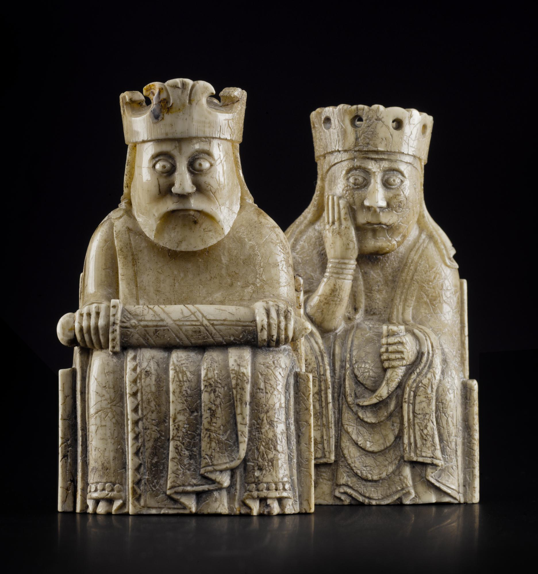 This file was uploaded as part of a partnership between Wikimedia UK and the National Museum of Scotland. This tag does not indicate the copyright status of the attached work. A normal copyright tag is still required. See Commons:Licensing. This work is free and may be used by anyone for any purpose. If you wish to use this content, you do not need to request permission as long as you follow any licensing requirements mentioned on this page.